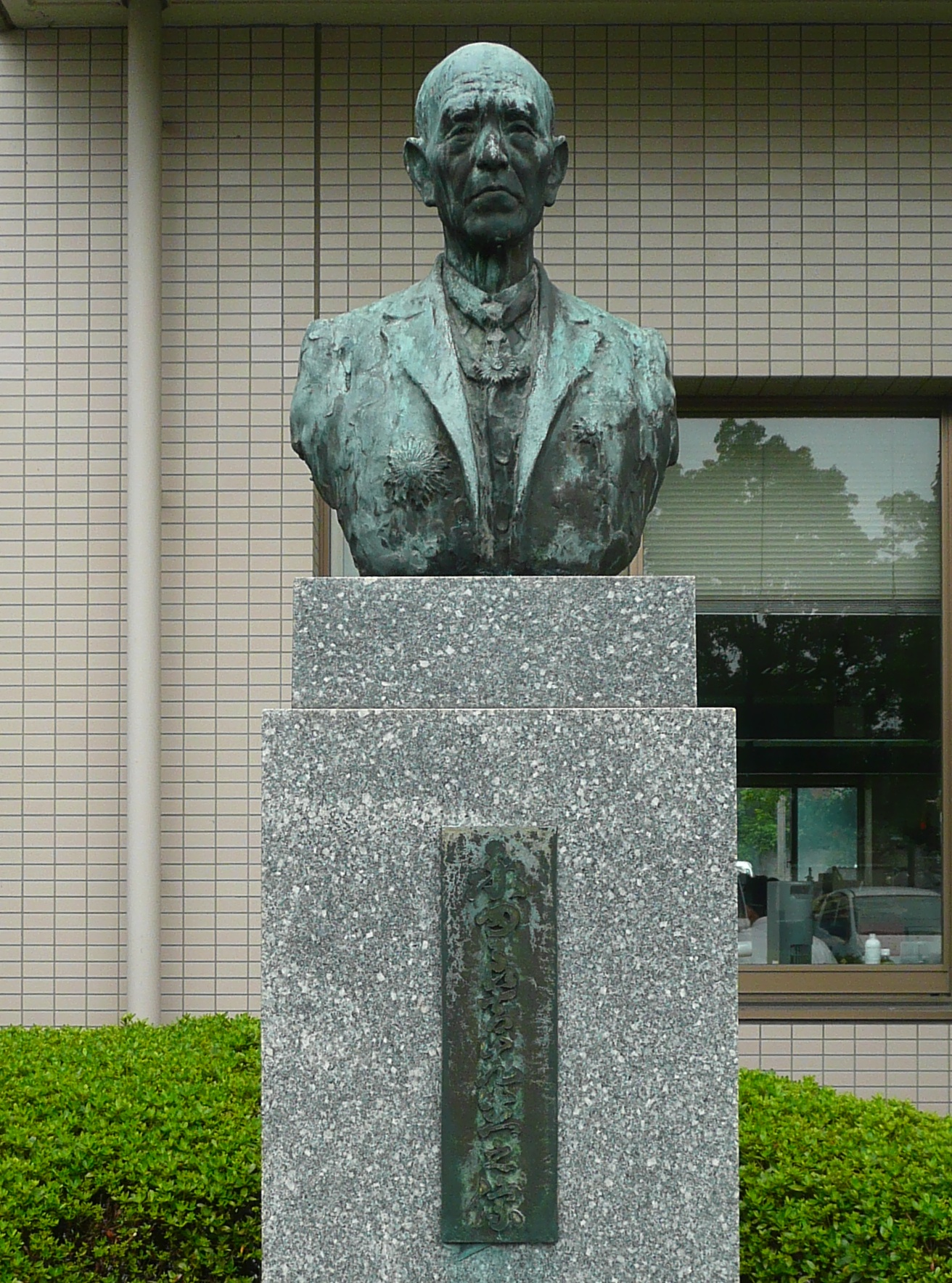 Ryōkichi Nagata's Bust. He was a menber of the House of Representatives (1928-1946, 1952-1955) and a mayor of Kanoya City, Kagoshima, Japan (1943-1947, 1956-1964).